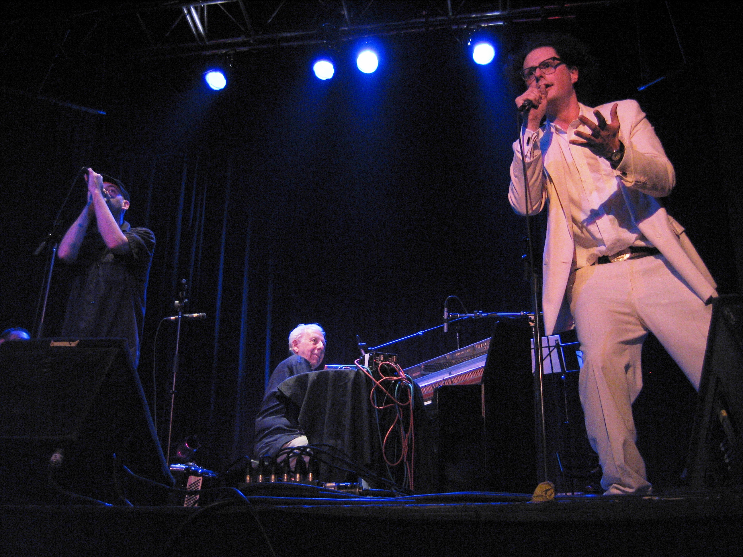 Canadian Rapper/Producer Socalled (on the right side) with piano player Irving Fields and an unidentified (can anyone help?) rapper at the Théatre National in Montreal, Canada